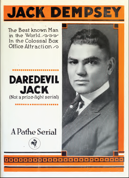 Jack Dempsey in Daredevil Jack (1920), a film serial directed by W S Van Dyke